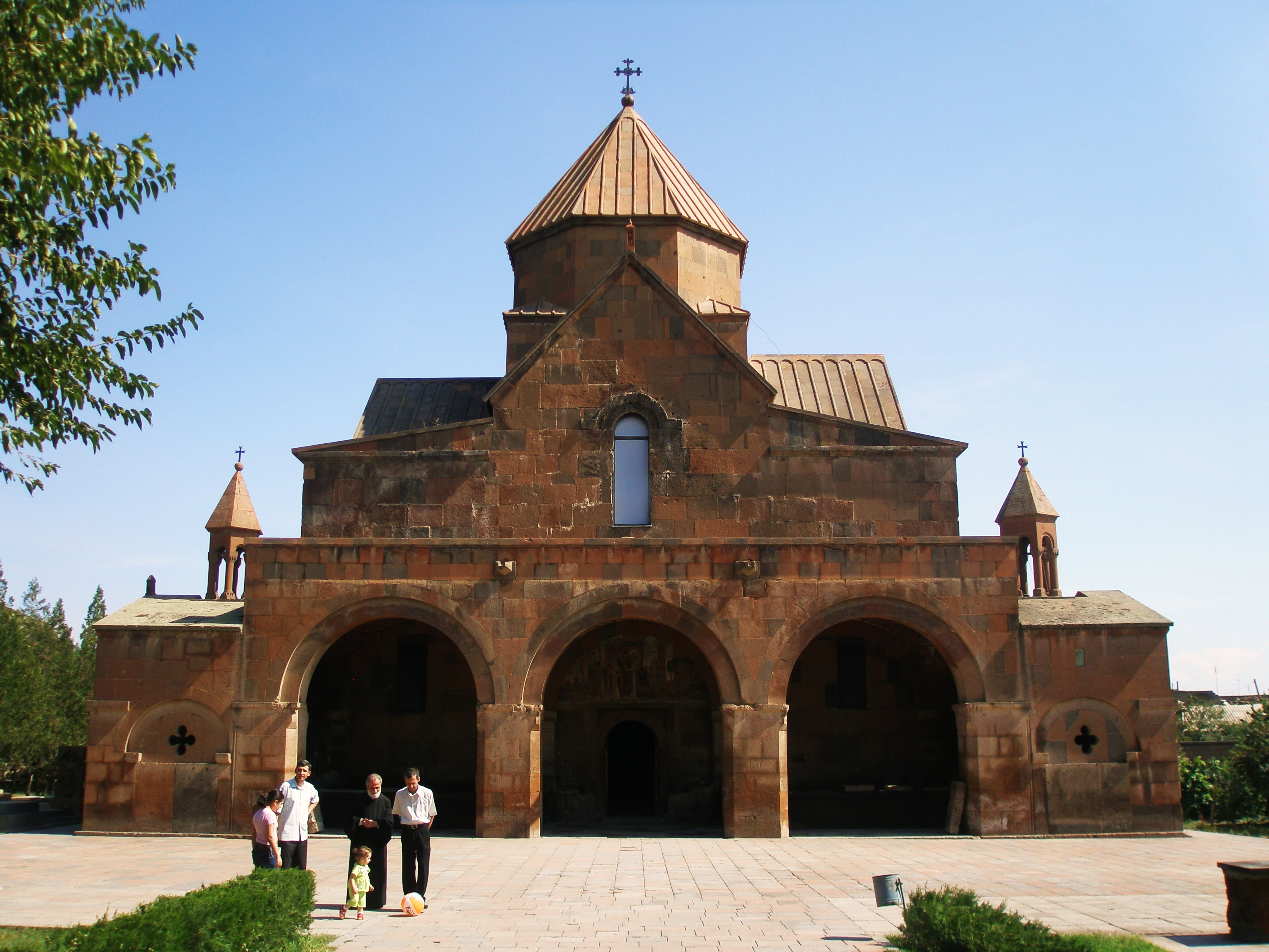 Surb Gayane Church